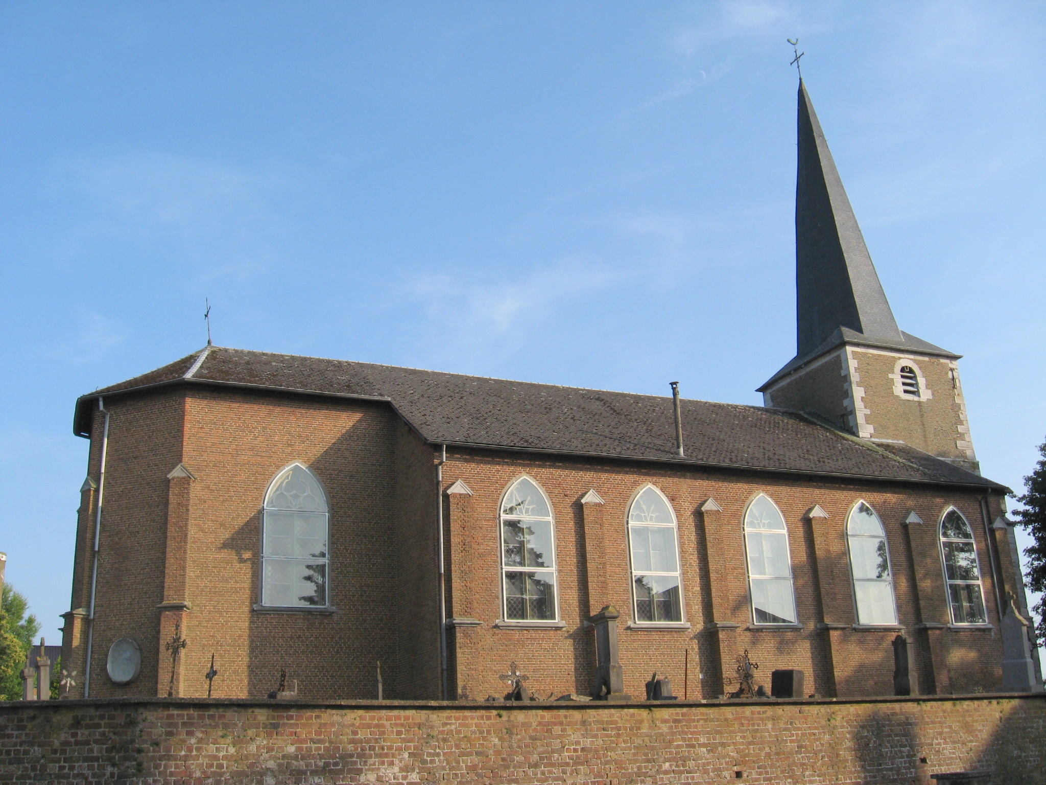 Church of Our Lady of the Assumption in Meeffe, Wasseiges, Liège, Belgium